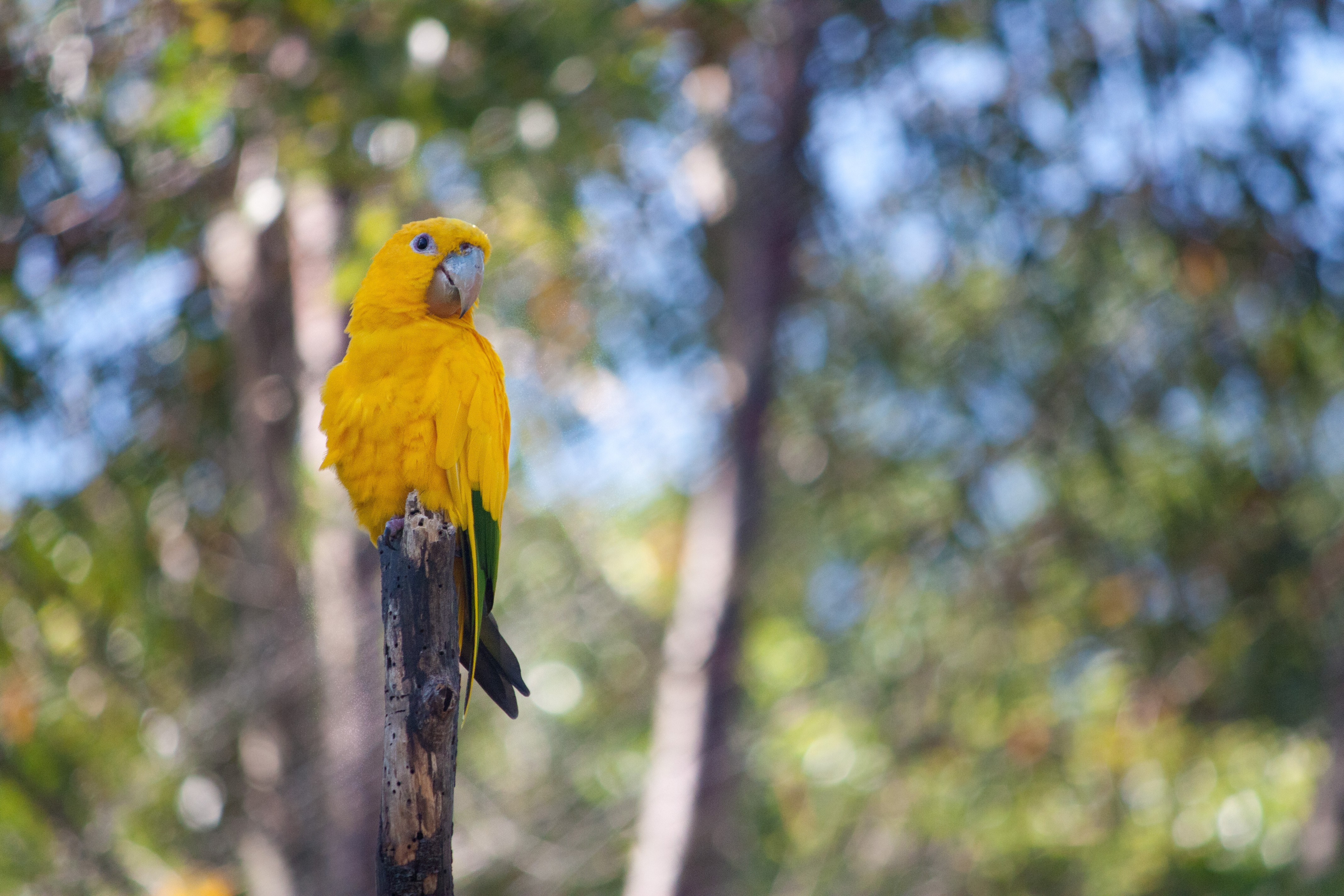 A Golden Parakeet at Gramado Zoo, Rio Grande do Sul, Brazil.